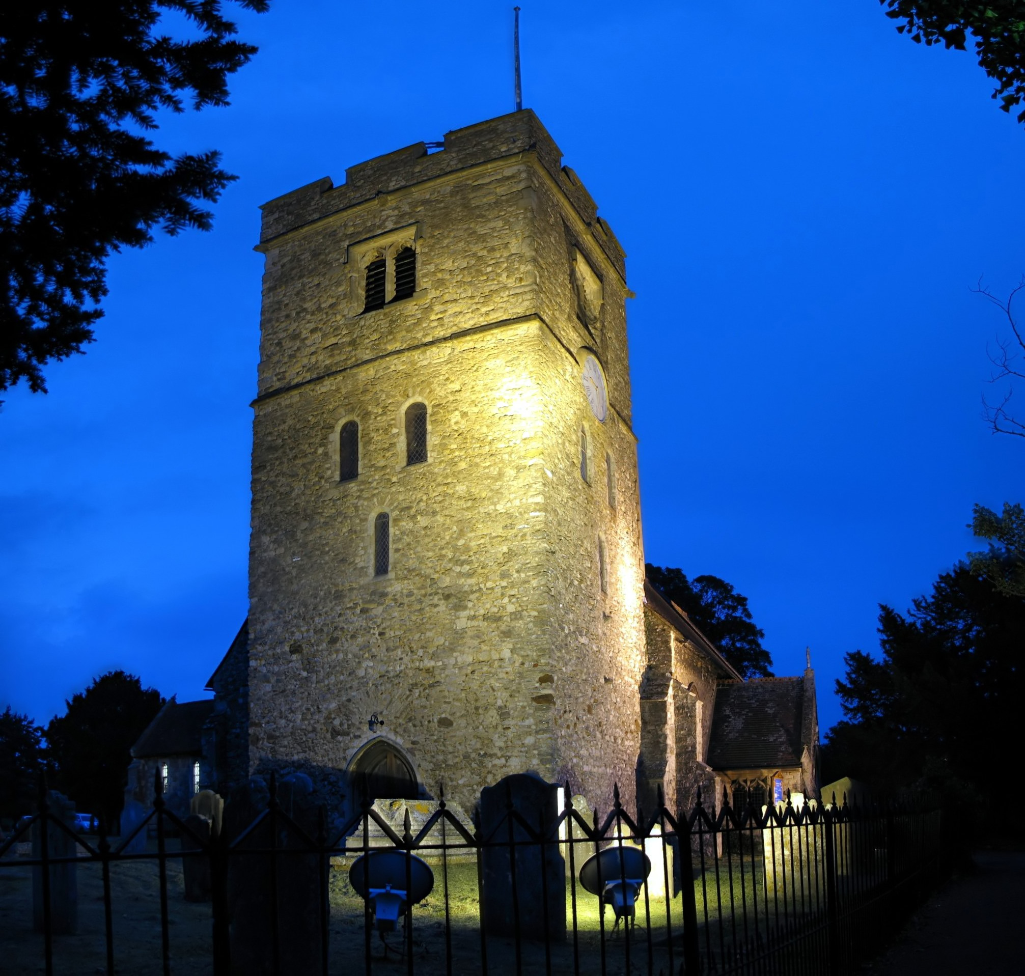 SS Peter and Paul's parish church, Aylesford, Kent, England, seen from the west